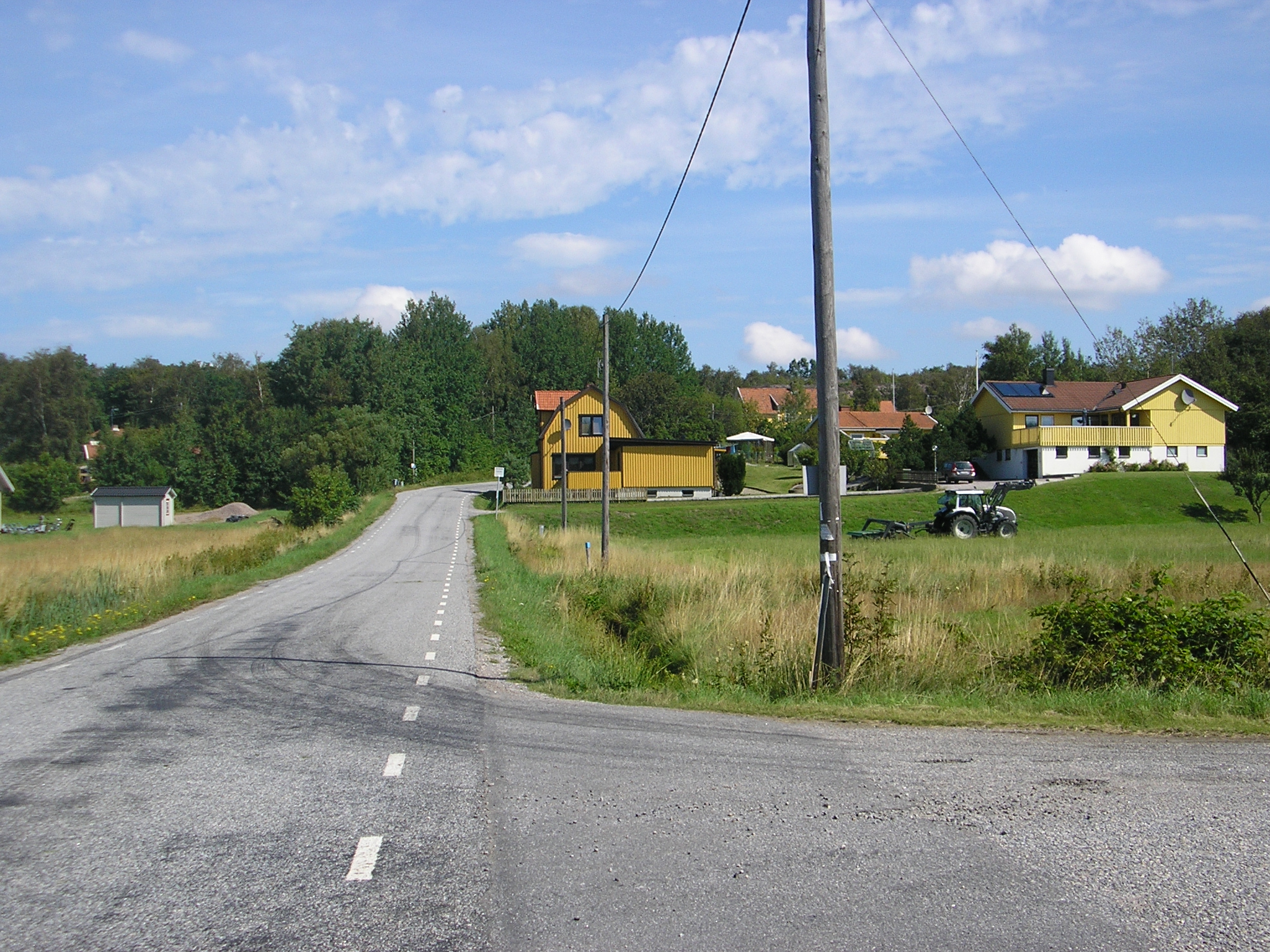 Fågelviken (Härnäset, Bohuslän, Sweden), coming from Slävik.